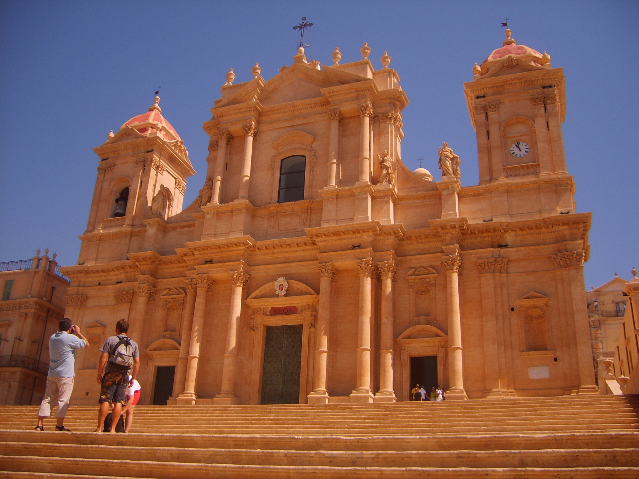 Cathedral of Noto